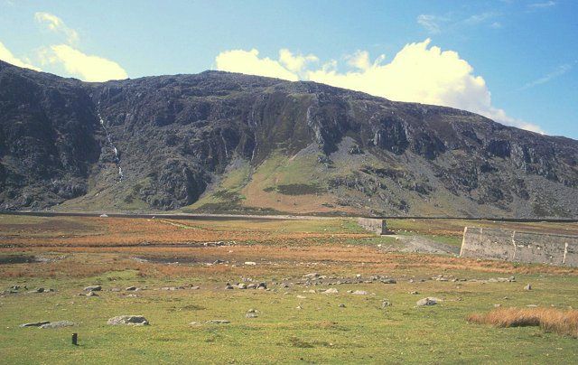 Llyn Eigiau dam. Dam breached during the disaster of 1925, when the dam, then holding back a hydroelectric reservoir for aluminium smelting, failed. The resultant flood killed 16 people in Dolgarrog in the main Conwy Valley below.